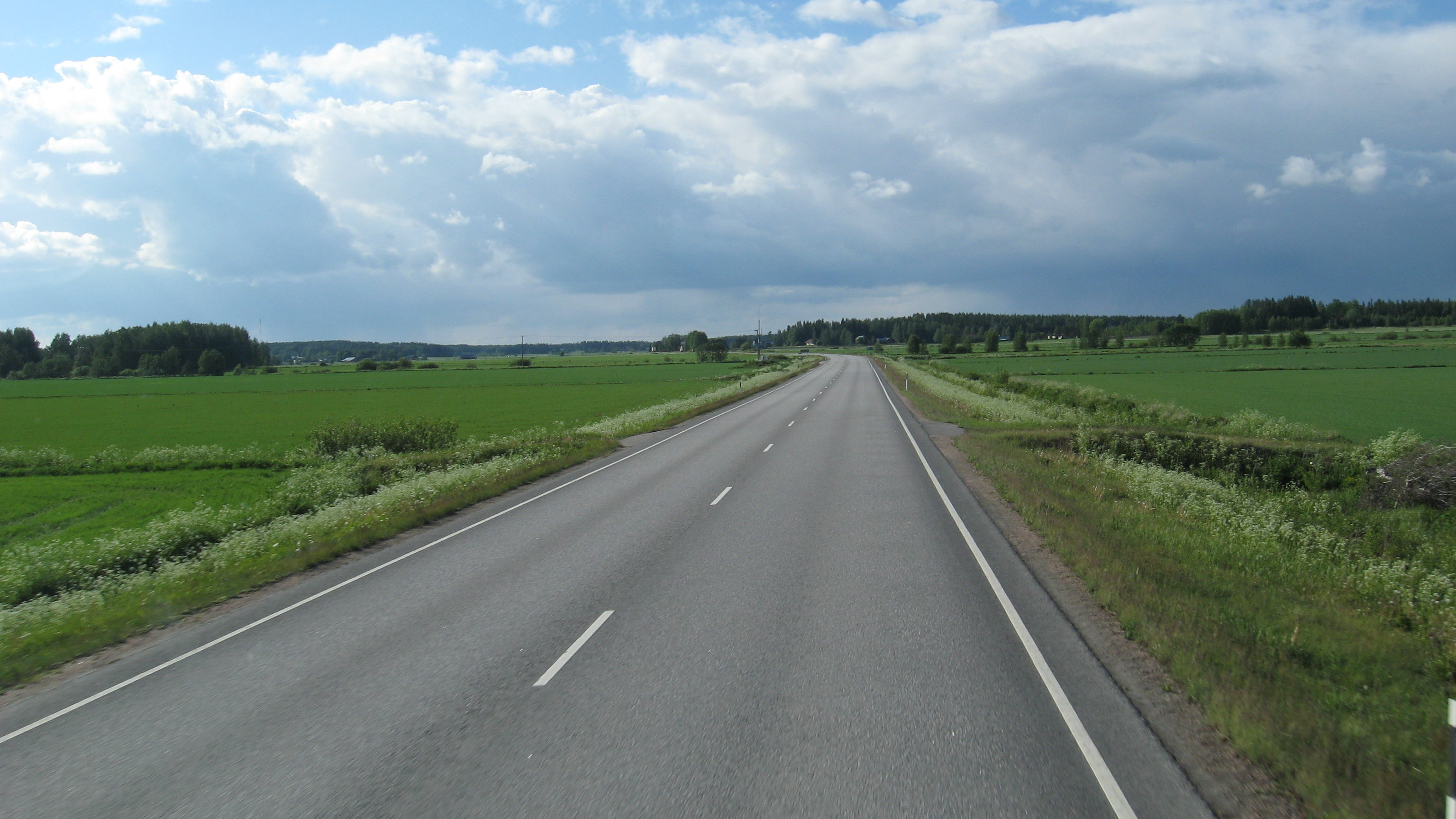 Finnish national road 3 (E12) between Jalasjärvi and Kurikka.